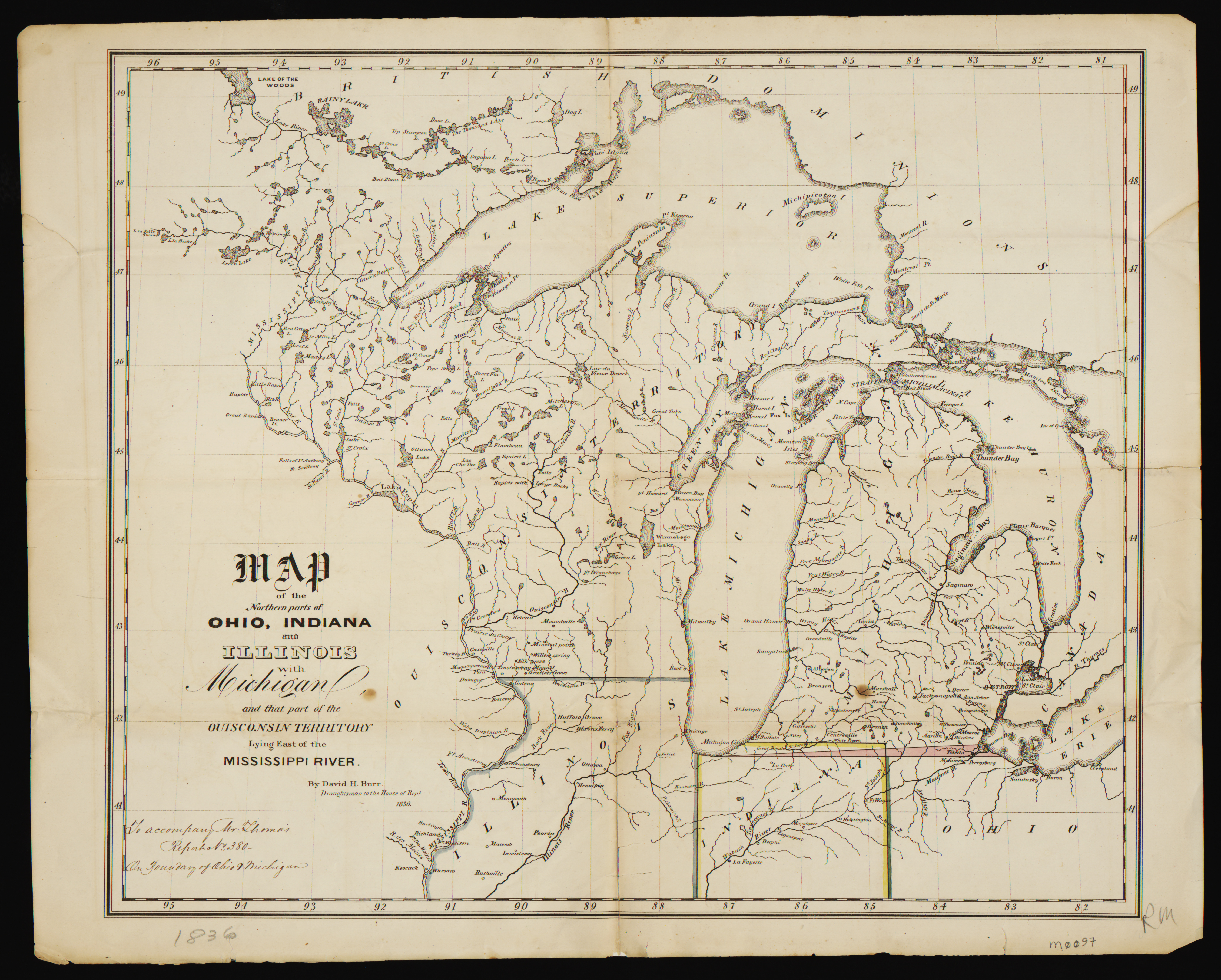 A map included in U.S. House Report 380 in the 24th Congress, 1st session, highlighting the contested land area between Michigan and Ohio territories.